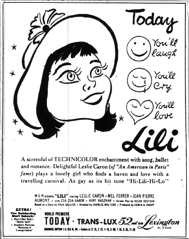 First use of Smiley Face in a campaign for the film Lili in 1953